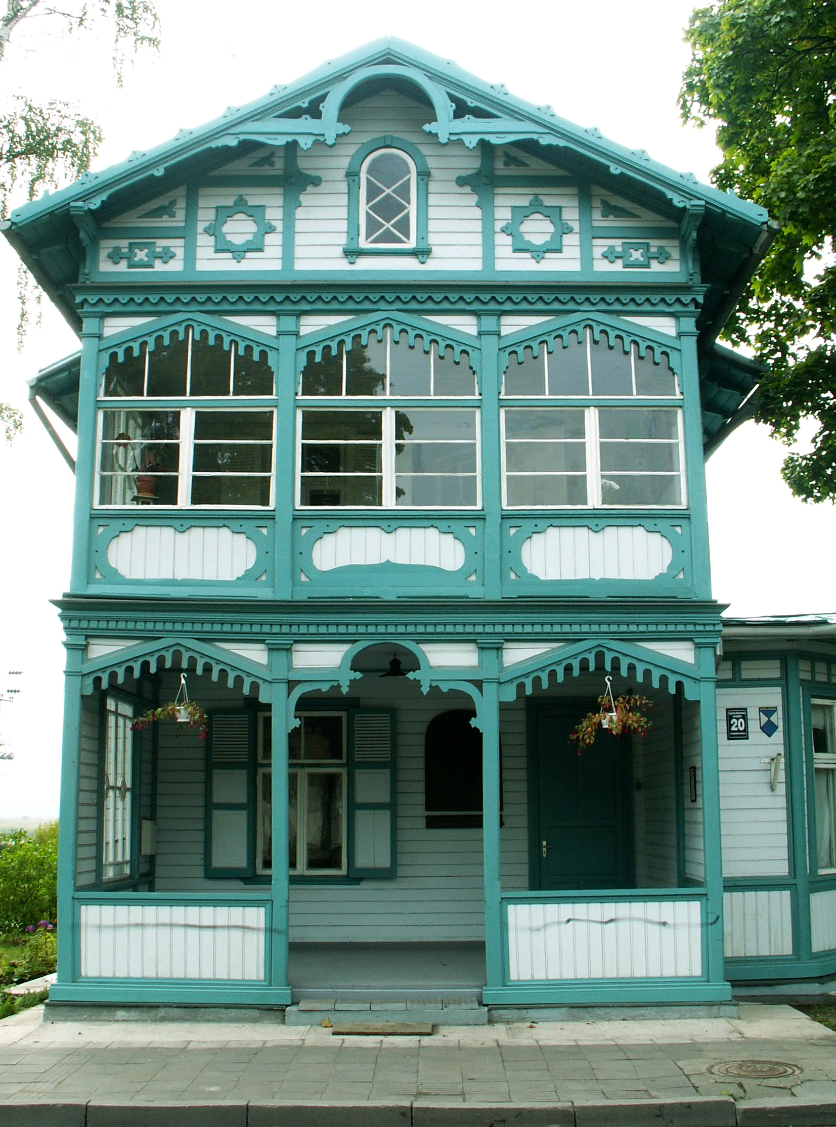 Jūrmala (Rīga) house